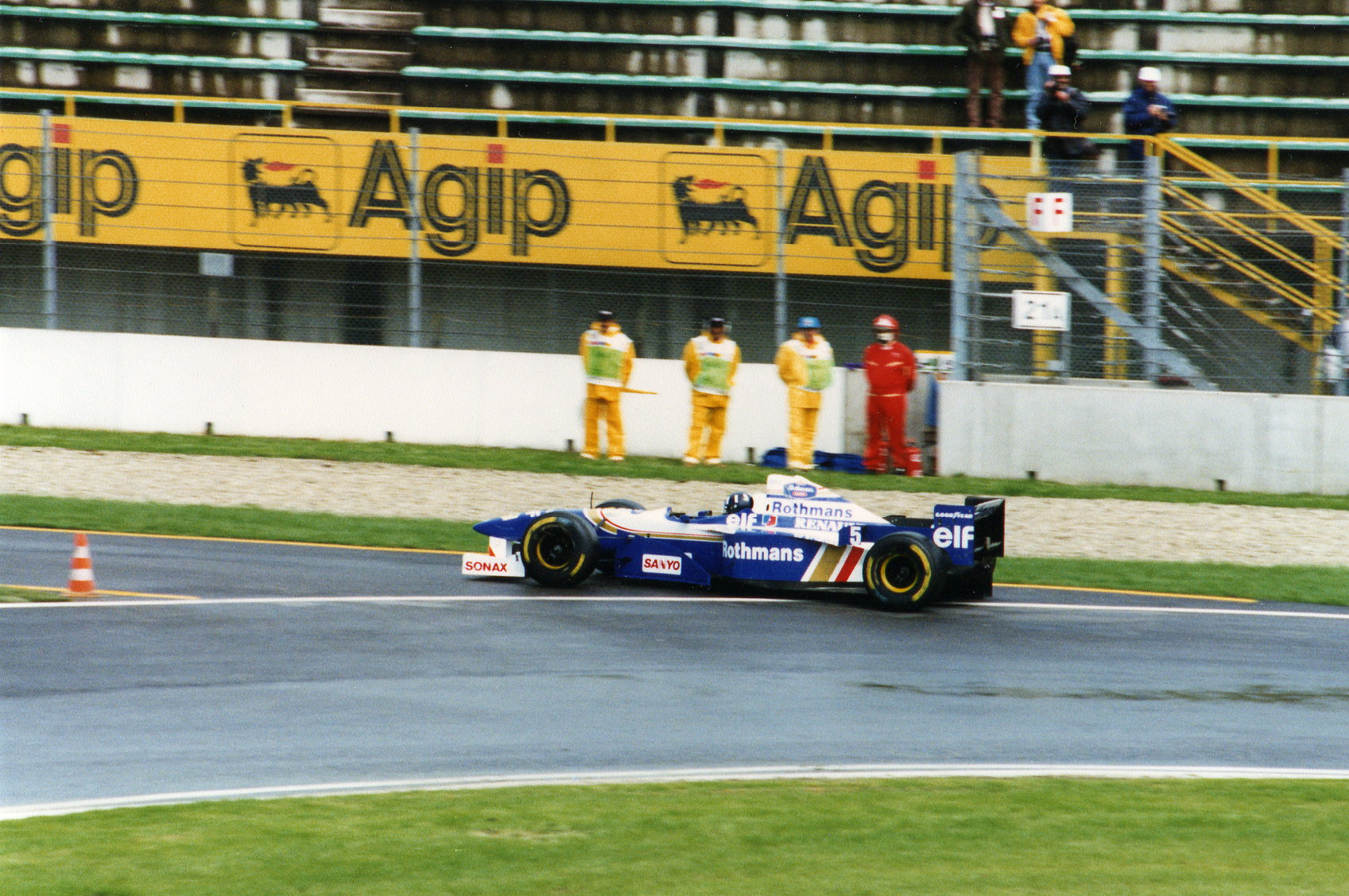 Damon Hill during free practice of 1996 San Marino Grand Prix.